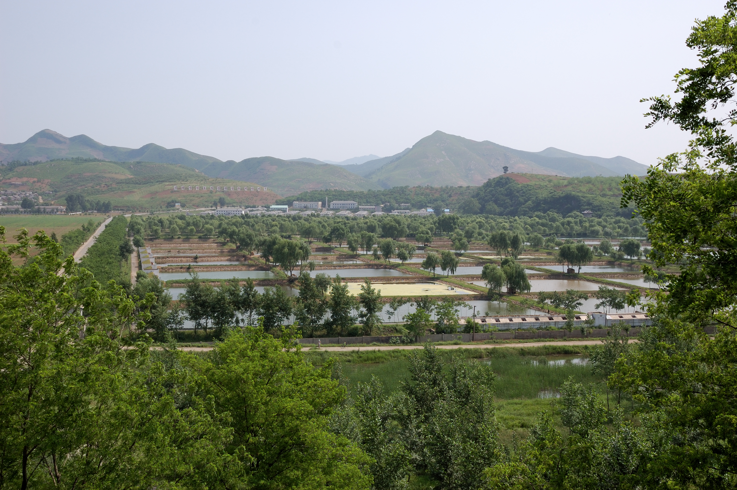 Poman-ri Fish Farm, Sohung County.